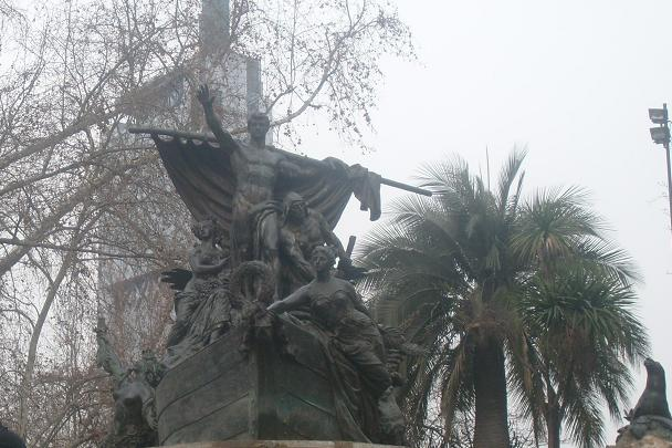 German Pioneers Parque Forestal Santiago Chile